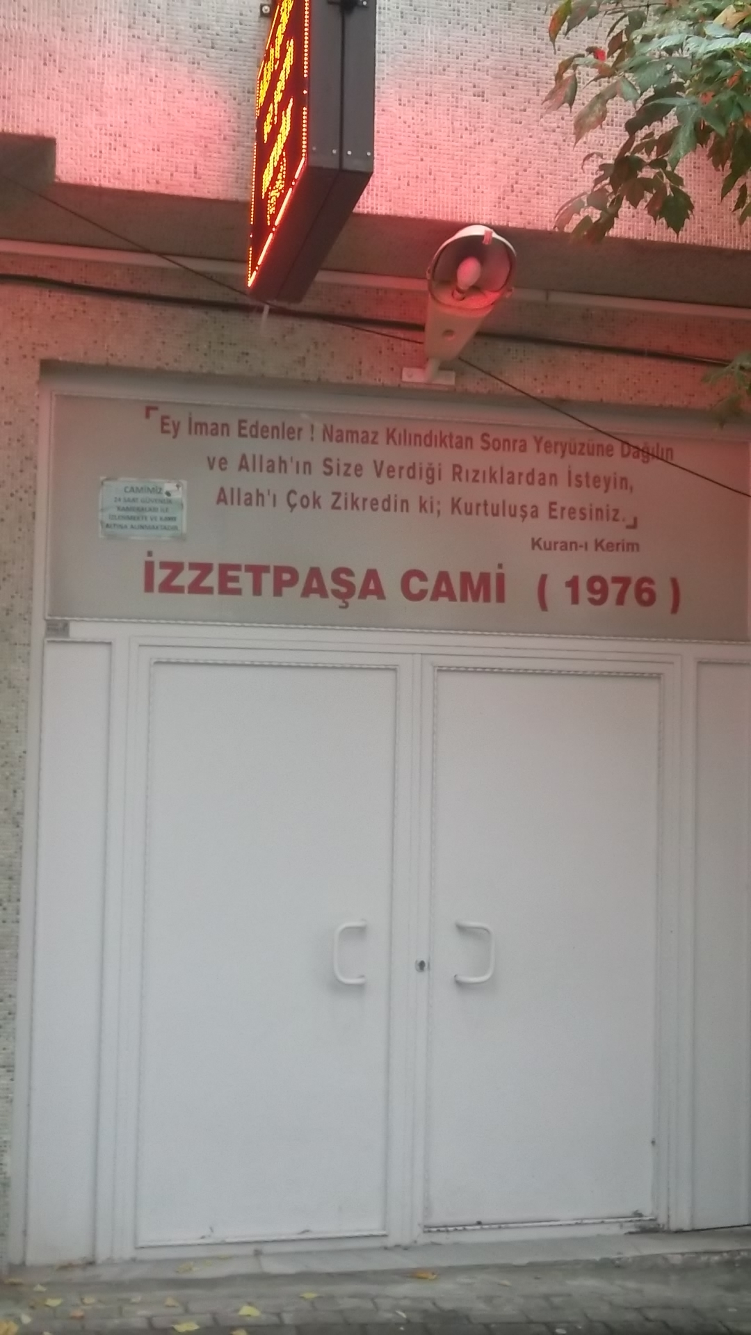 Enterance of İzzetpaşa Mosque, Şişli.